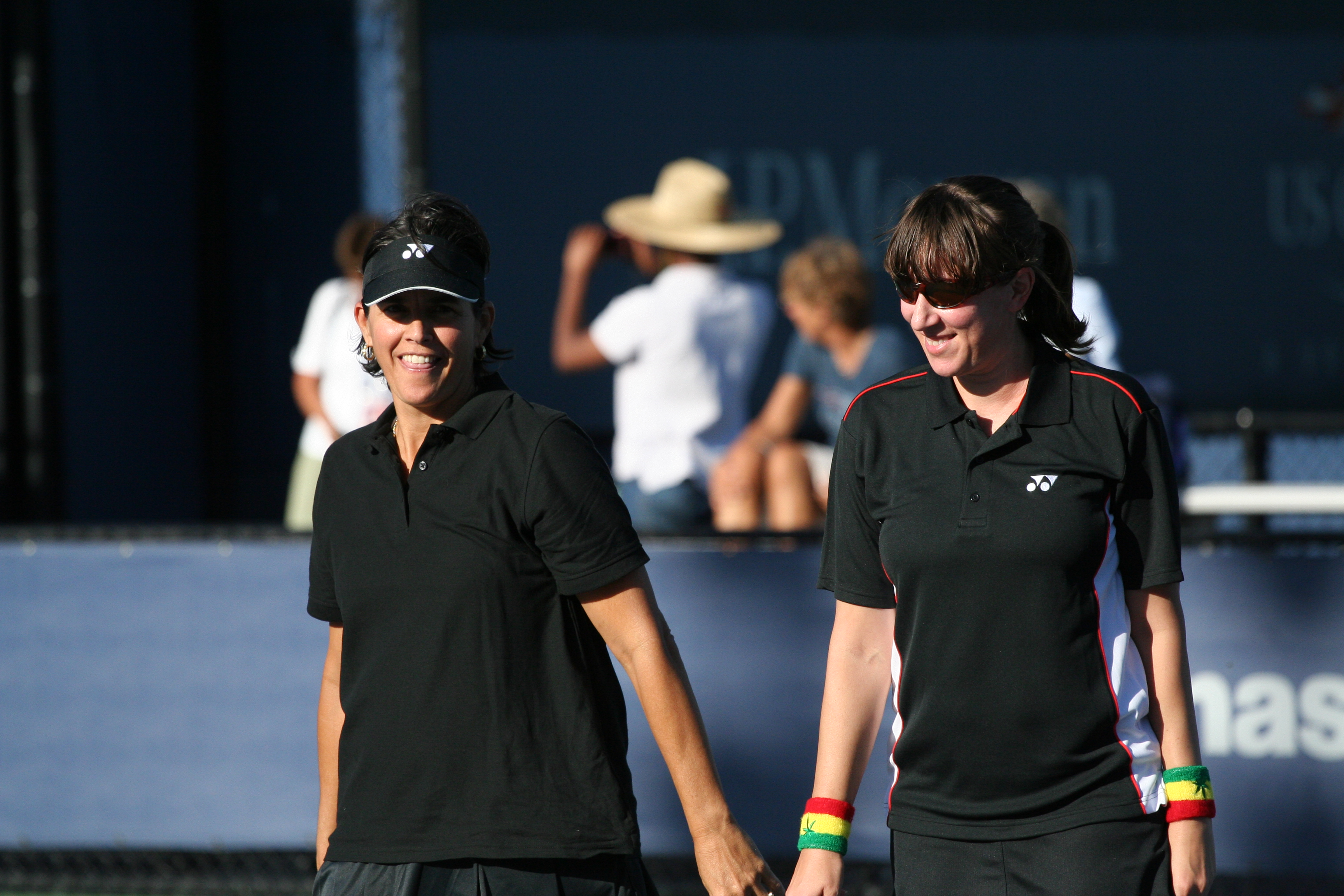 U.S. Open Champions Team Tennis; Sept. 8, 2010